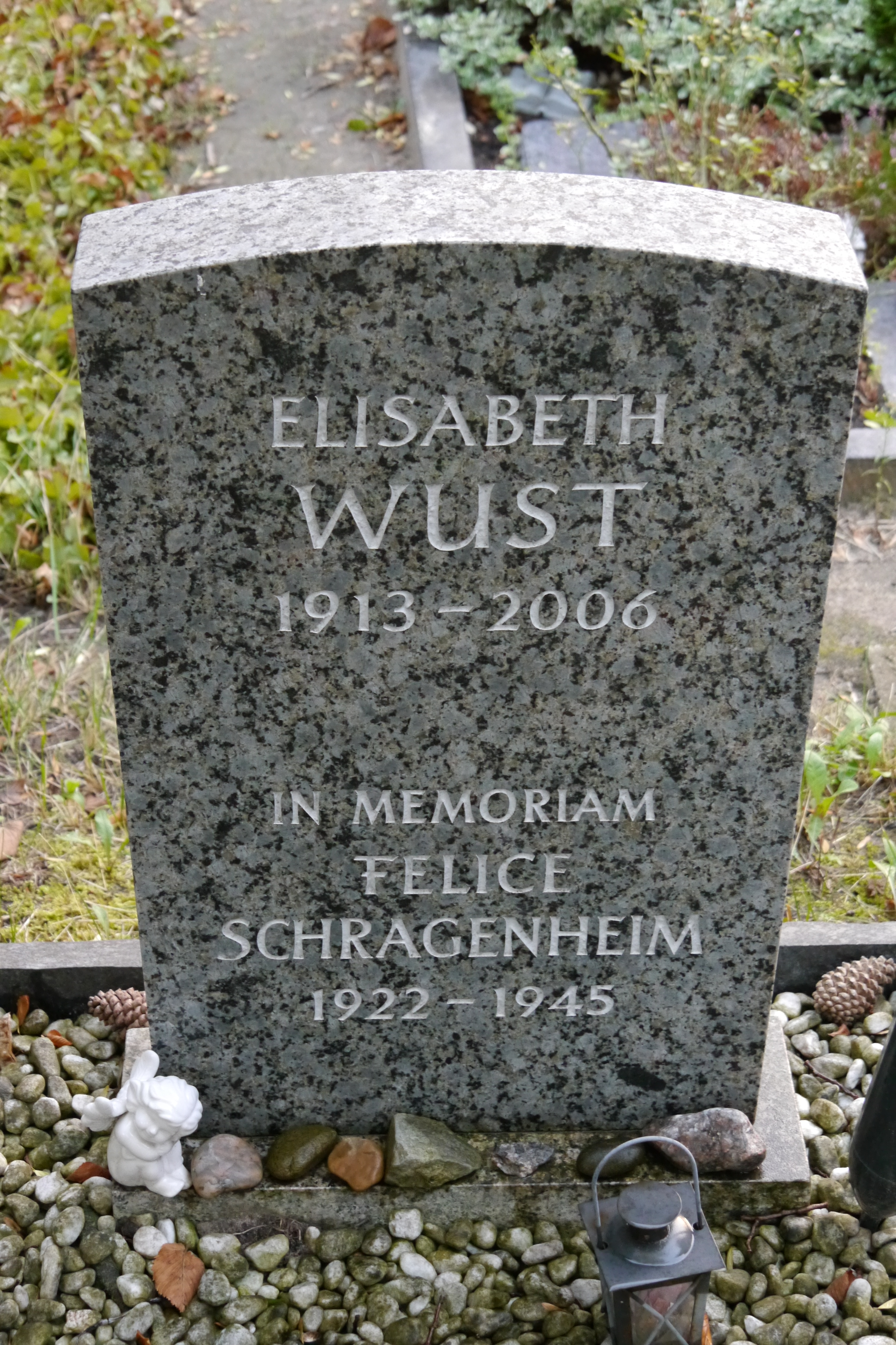 Gravestone of Charlotte Elisabeth “Lilly” Wust on the cemetery of the Giesensdorf village church, Lichterfelde, Berlin, Germany